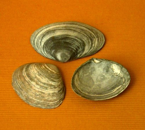 Scrobicularia plana Author: penelopeia Shell from own collection.